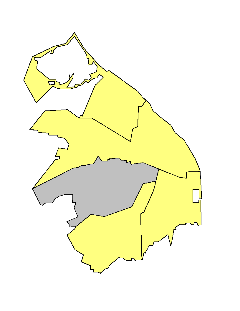 Barranquilla - Sur Occidente Localidad